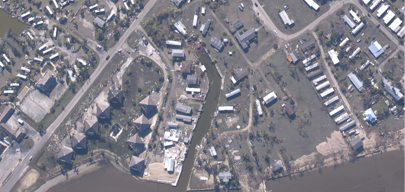 Aerial view of damage at a section of Chokoloskee after Hurricane Wilma